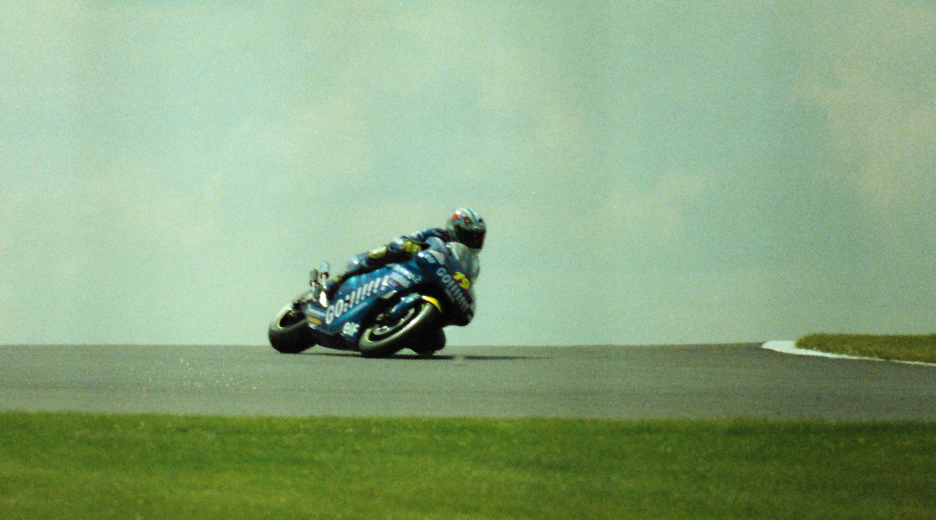 Olivier Jacque, riding his 250cc Chesterfield Tech 3 Yamaha at the 2000 British Grand Prix.